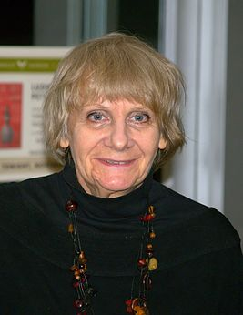 Russian author Ludmilla Petrushevskaya at McNally Jackson book store in New York City.